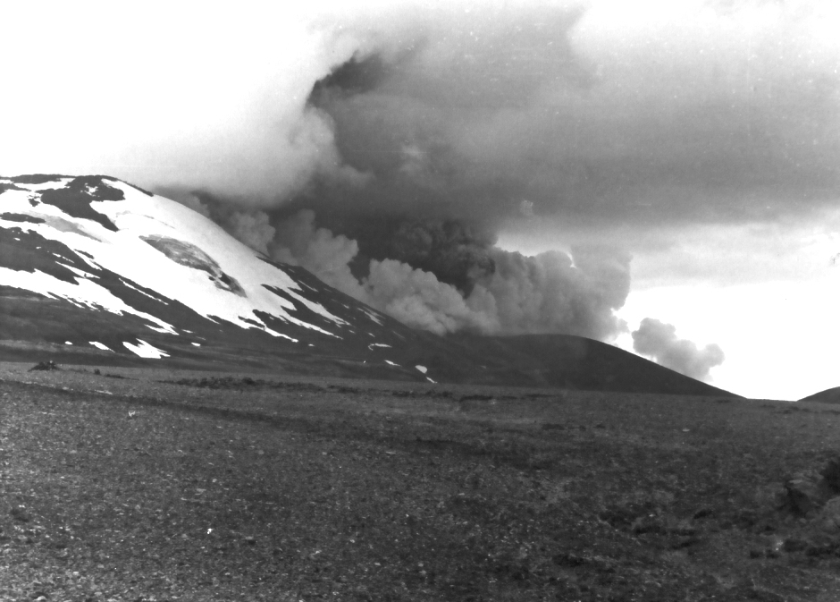 The eruption of Hekla August 17 en:1980 at approximately 13:40. It was taken from a position 4 km to the northeast of the volcano which had been erupting for about 10 minutes when the photograph was taken. The lighter steam in the middle distance marks the meltwater path jökulhlaup of the summit glacier that had just melted and literally cartwheeled down the mountain. The noise of the eruption was akin to a jet engine roaring at this point.